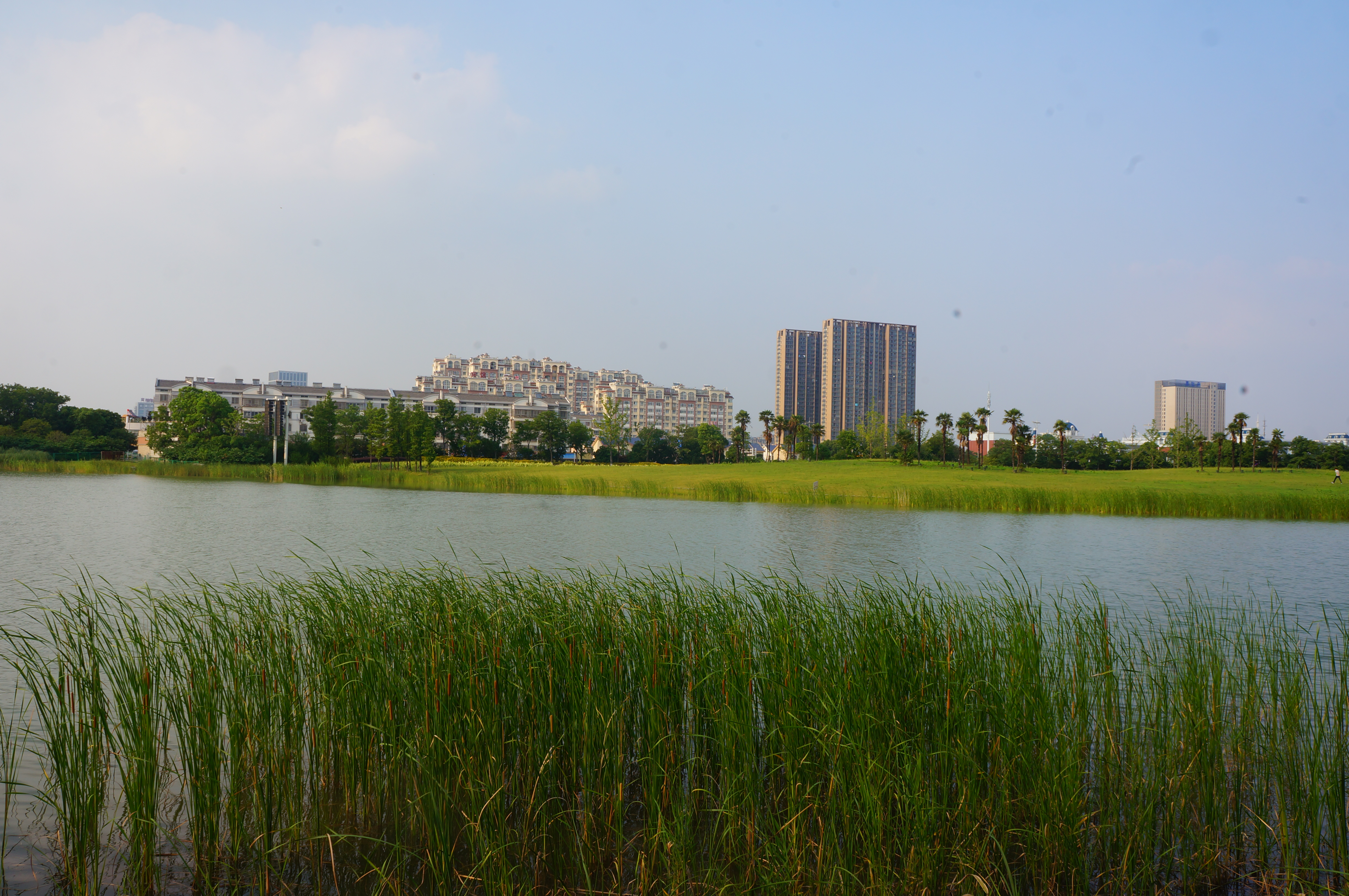 201706 HSR Ecological Park in Changzhou. It is located at the north square of Changzhoubei Station